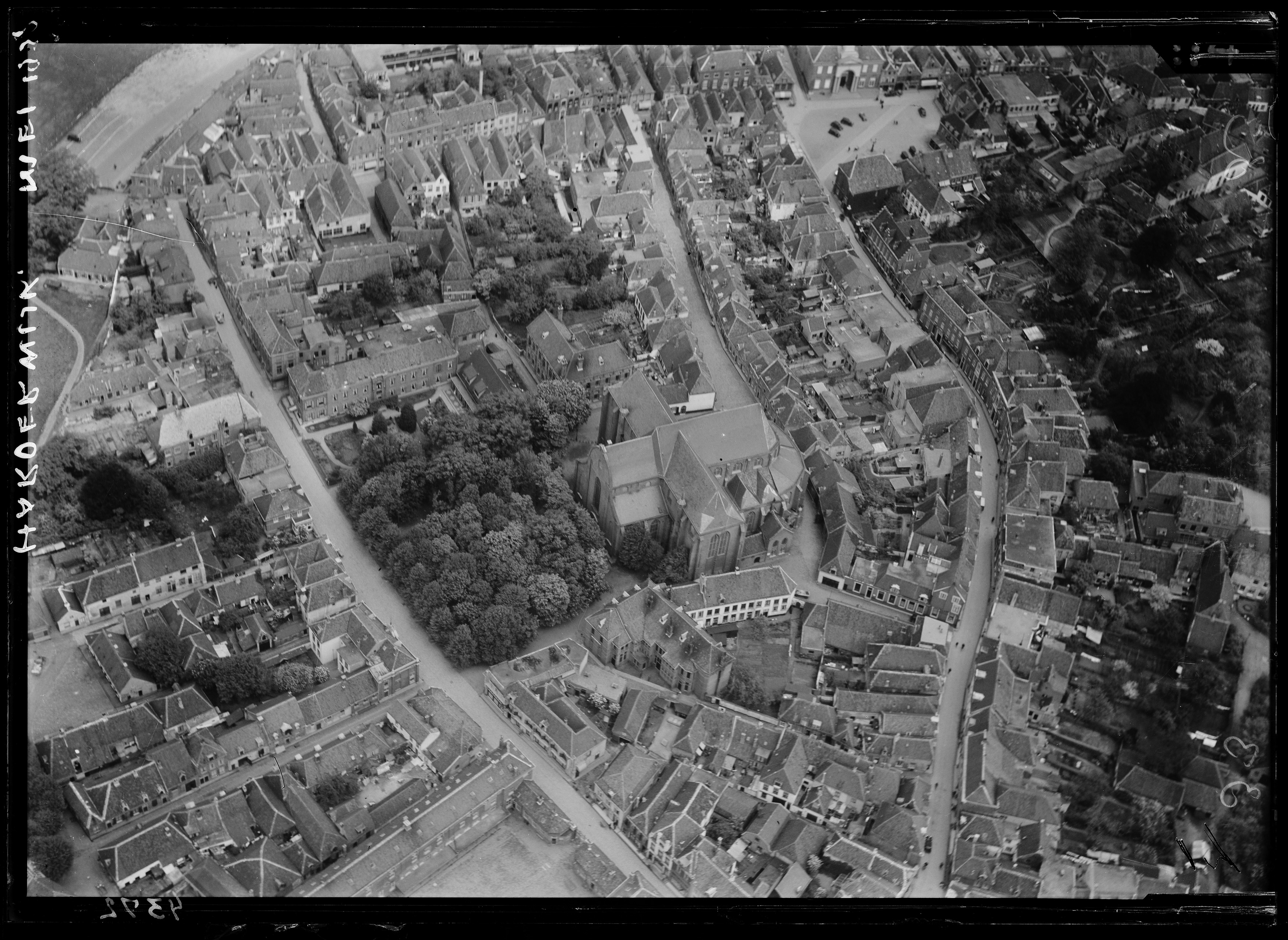 Aerial photograph of Harderwijk, The Netherlands